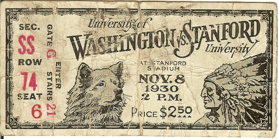 The front side of a 1930 ticket stub from the University of Washington vs. Stanford University football game on November 8th at Stanford stadium. Includes the Husky and Indian mascot images. The Indian mascot was adopted by Stanford in 1930, but abandoned in 1972 after Native Americans expressed objections.